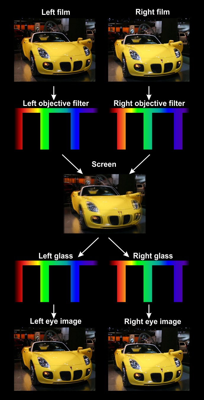 Dolby 3D technology explanation